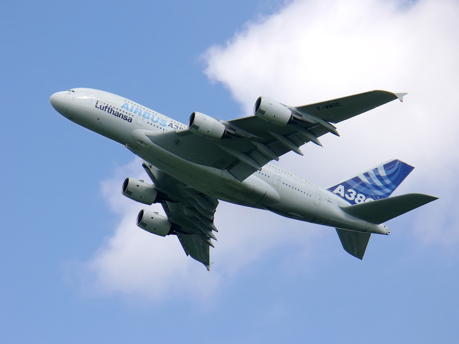 Airbus A380 in flight during the ILA 2006